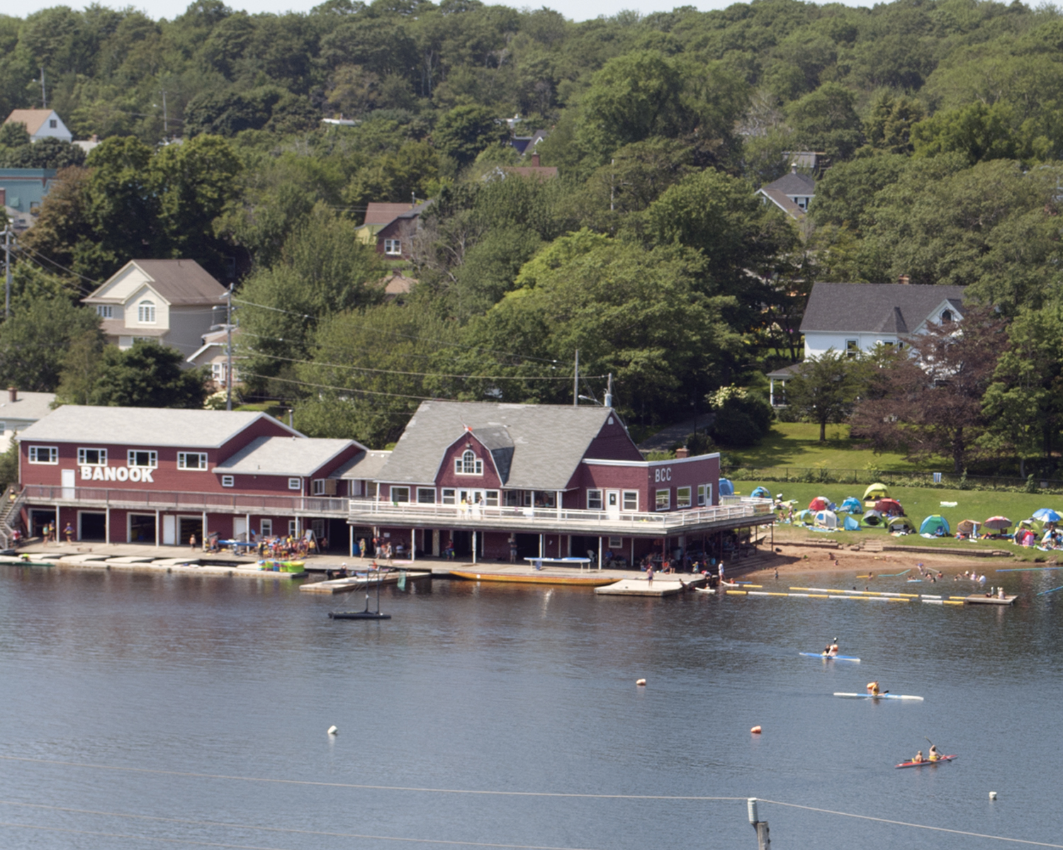 Shot of Lake Banook and the historic Banook Canoe Club